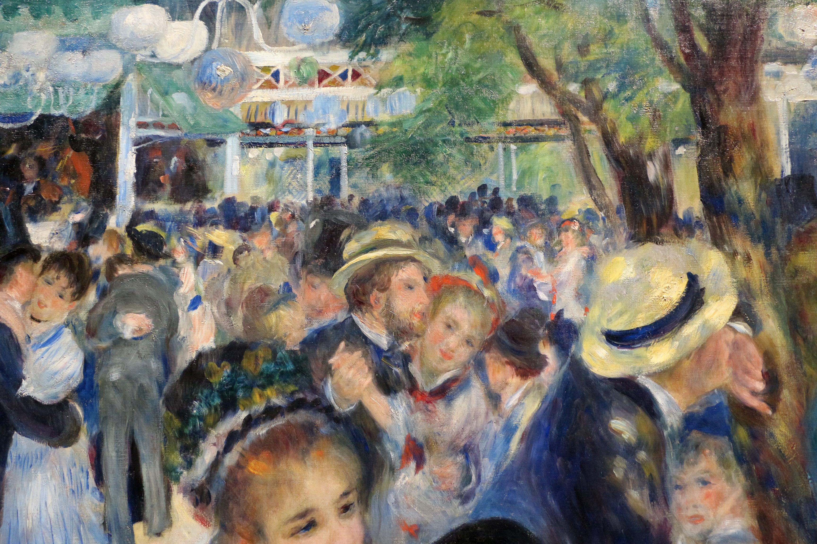 Bal du moulin de la Galette by Renoir